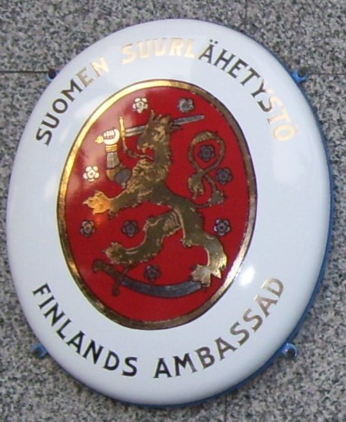 Symbol of Finland Embassy